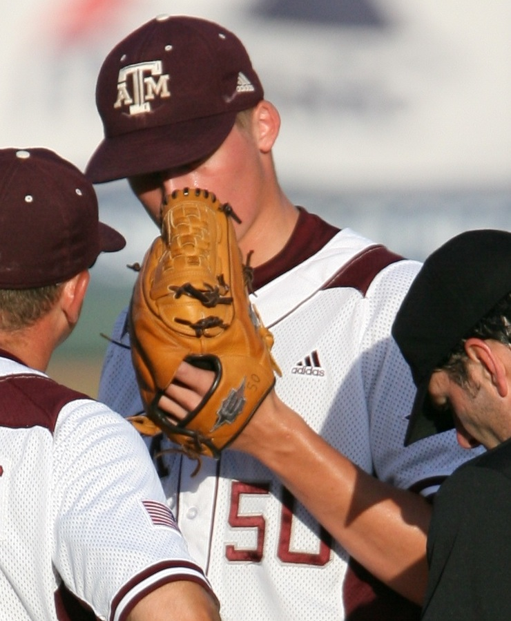 Rob Childress visits Barret Loux on the mound during a game in the 2008 NCAA Division I Baseball Tournament Houston Super Regional at Reckling Park.